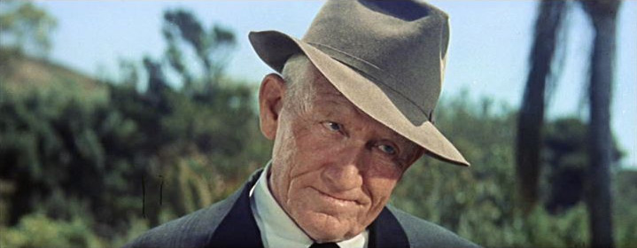 Spencer Tracy